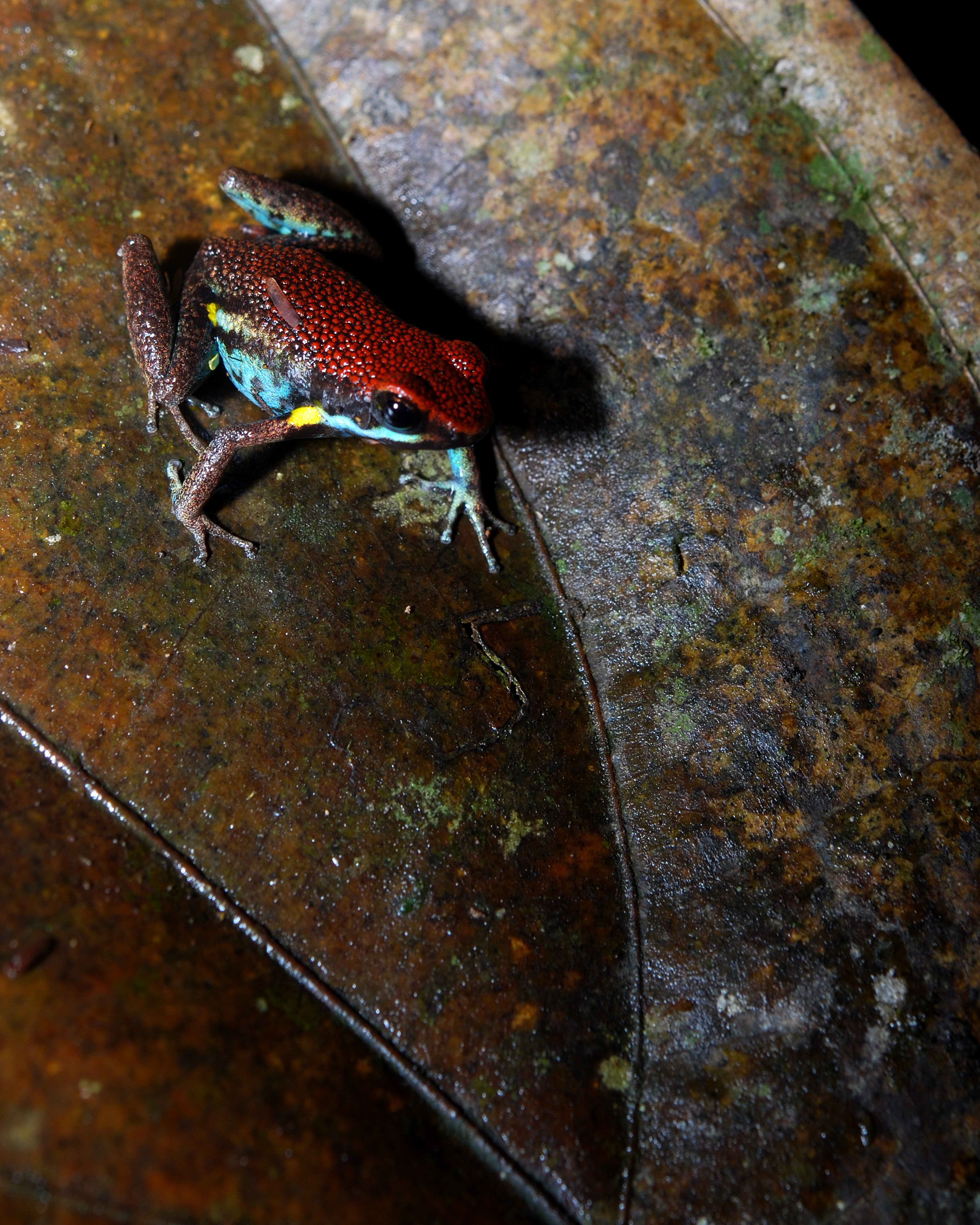 Dendrobatidae: Ameerega bilinguis Found in Yasuní National Park, Ecuador